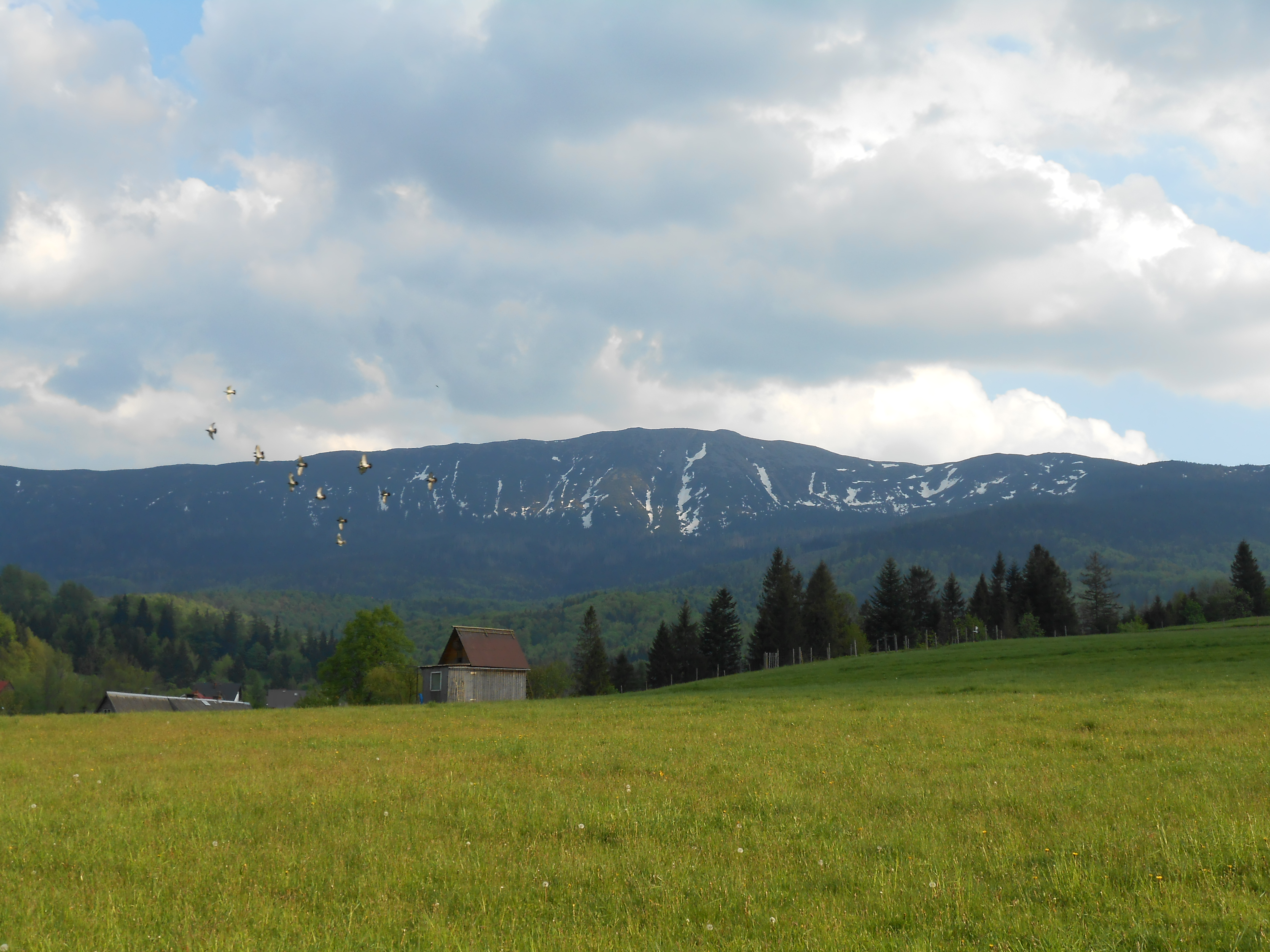 Babia Gora seen from north